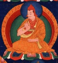 Sumpa_Lotsawa_Darma_Yontan, 12th century Tibetan translator